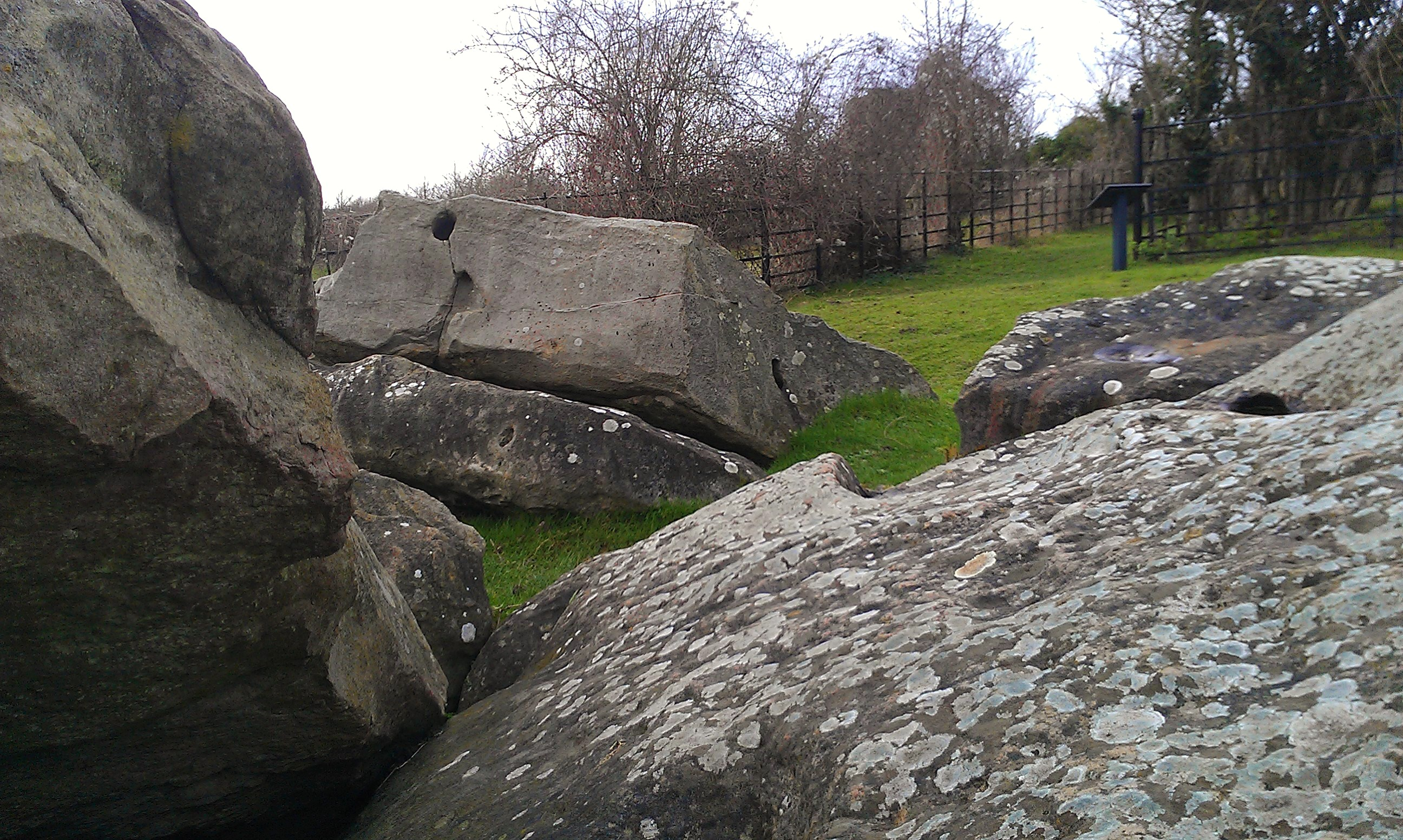 Megaliths at the Early Neolithic chambered tomb of Little Kit's Coty House in Kent, one of the Medway megaliths.